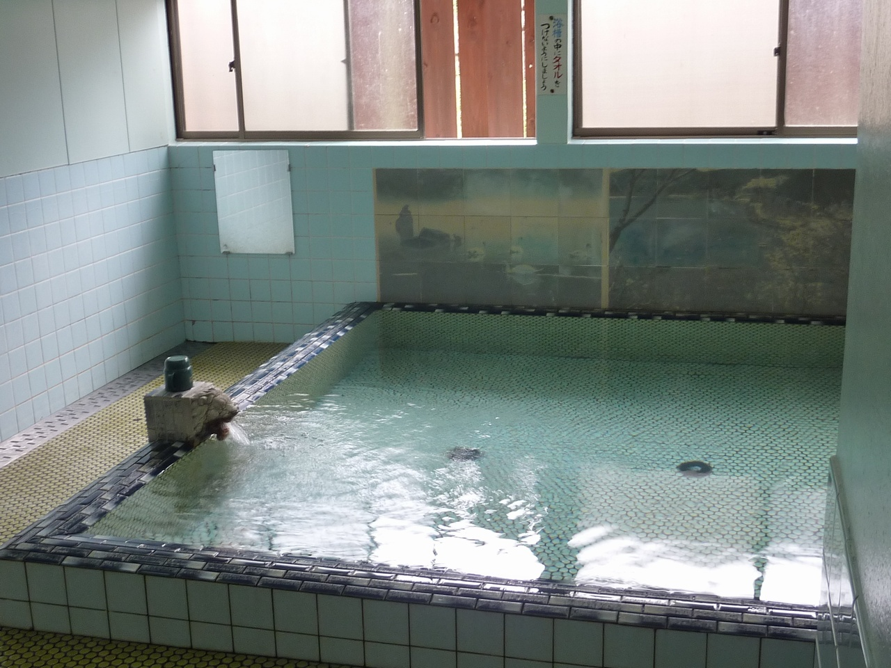 The Imuta Onsen (Hot springs), is in Kedoin-cho Imuta, Satsumasendai City, Kagoshima Prefecture, Japan.